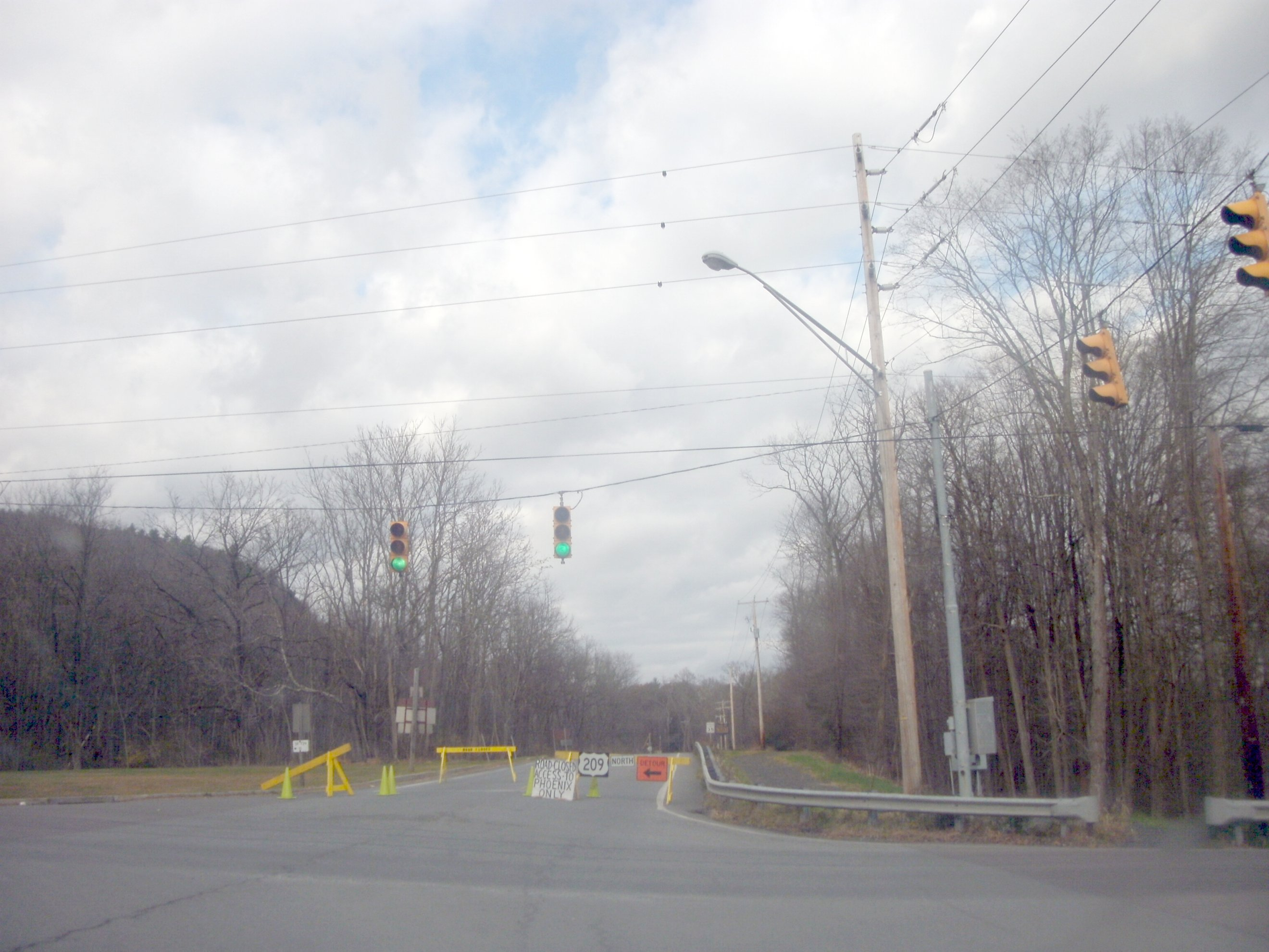 The alignment of U.S. Route 209 in Dingmans Township is shown here closed at the intersection with Route 739.